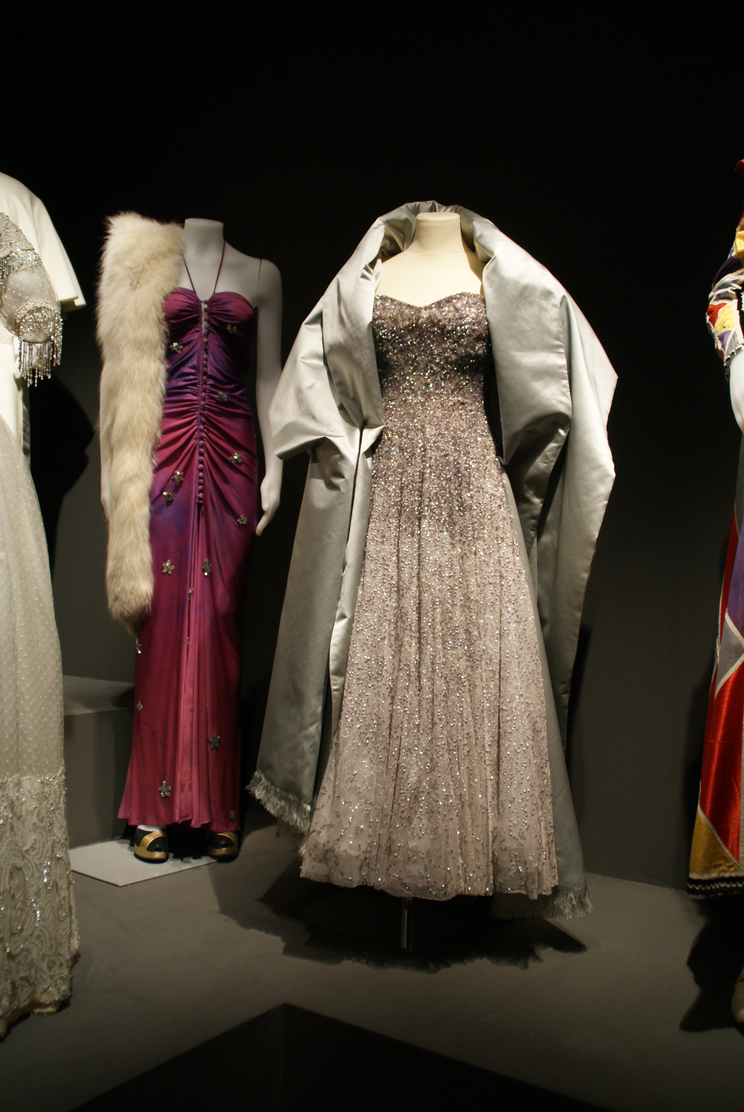 Costume worn by Charlotte Rampling in the film The Night Porter (Il portiere di notte) directed by Liliana Cavani displayed in Cinecittà studios, Rome, Italy. Costume designer: Piero Tosi.